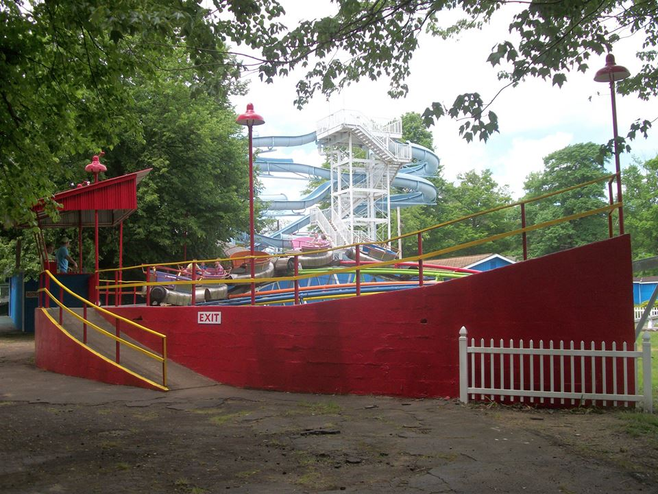 Conneaut Lake Park Tumble Bug